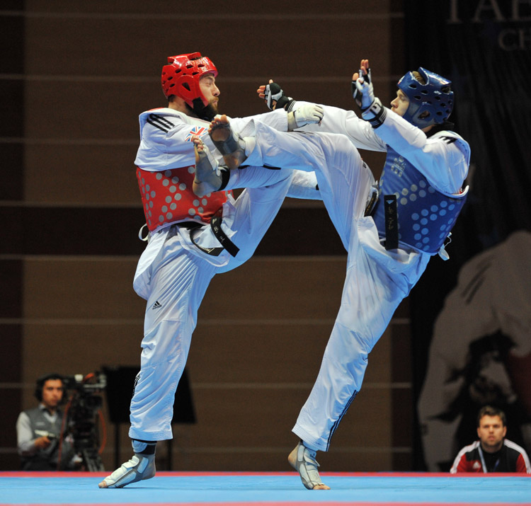 Taekwondo competition in Baku